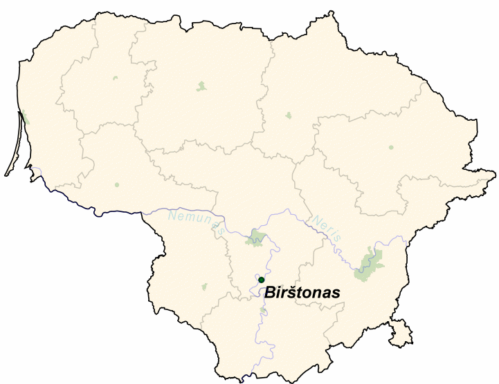 Birštonas on the map of Lithuania